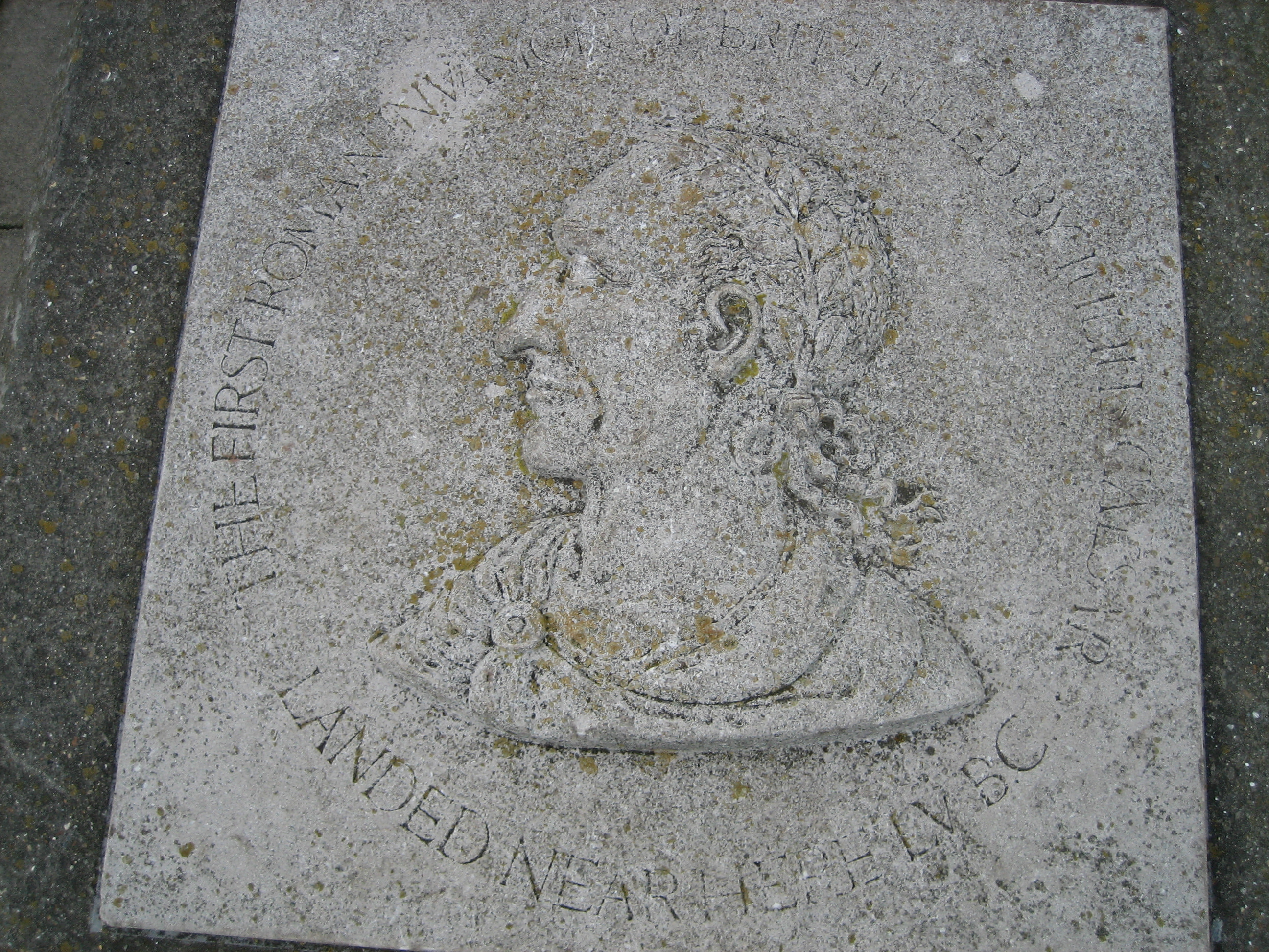 Memorial to Caesar's invasions of Britain at Deal, Kent